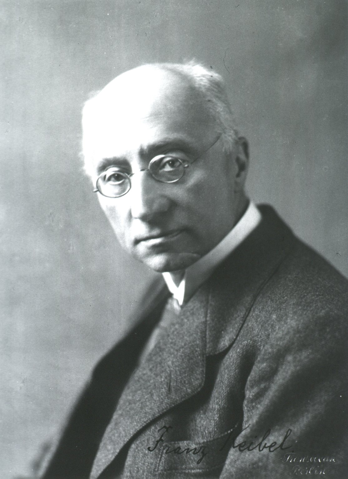 Franz Keibel